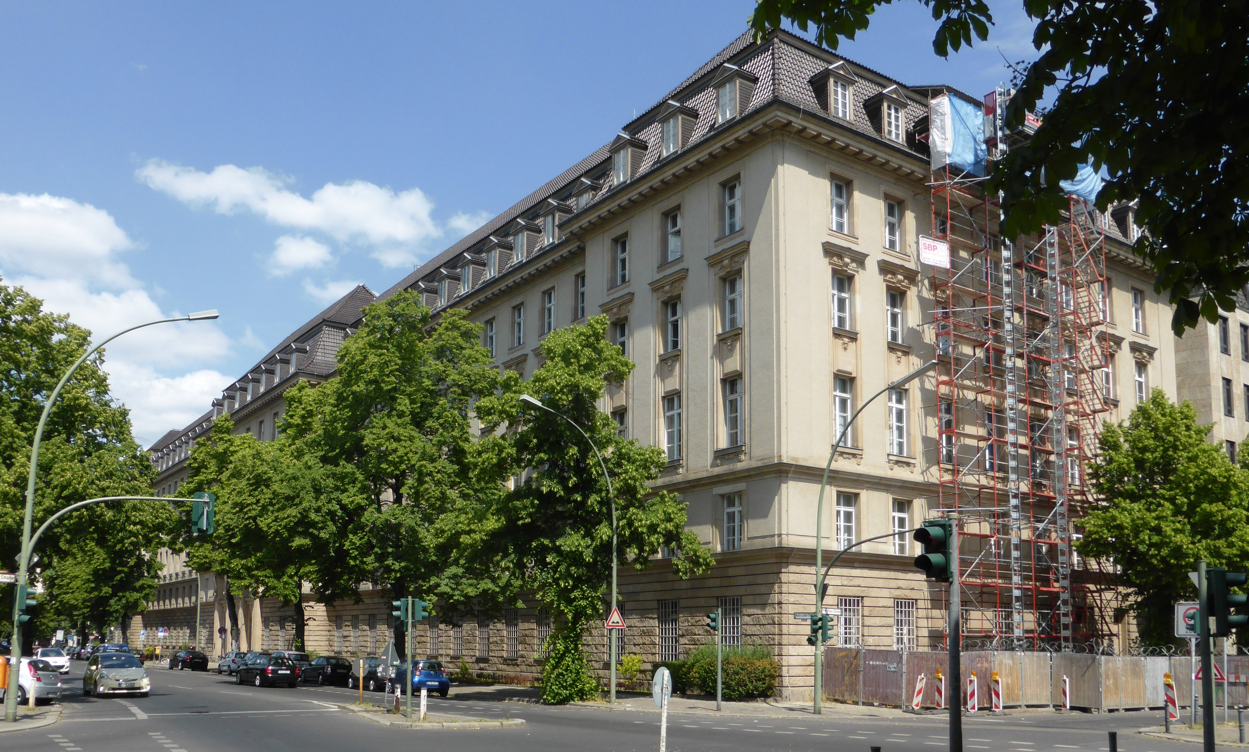 Senate Department for Economy, Technology and Research in Berlin-Schöneberg.